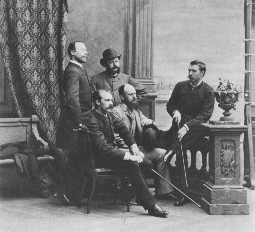 Photo ca 1885 with the leader of the Opponent movement (a group that wanted to change the Swedish Art Academy). Standing from left: Carl Larsson och Ernst Josephsson. Sitting from left: Richard Bergh, August Hagborg, Per Hasselberg.